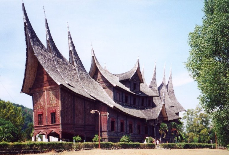 Pagaruyung Palace, Batusangkar, Indonesia